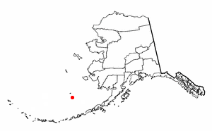 Adapted from Wikipedia's AK borough maps by Seth Ilys.